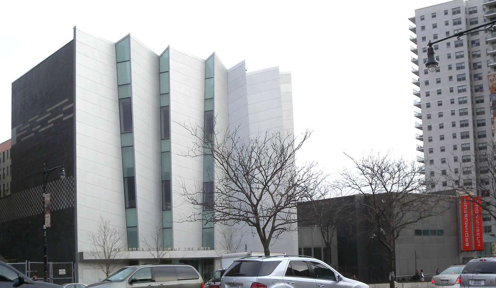 Looking southeast across Grand Concourse at Bronx Museum on a cloudy afternoon.